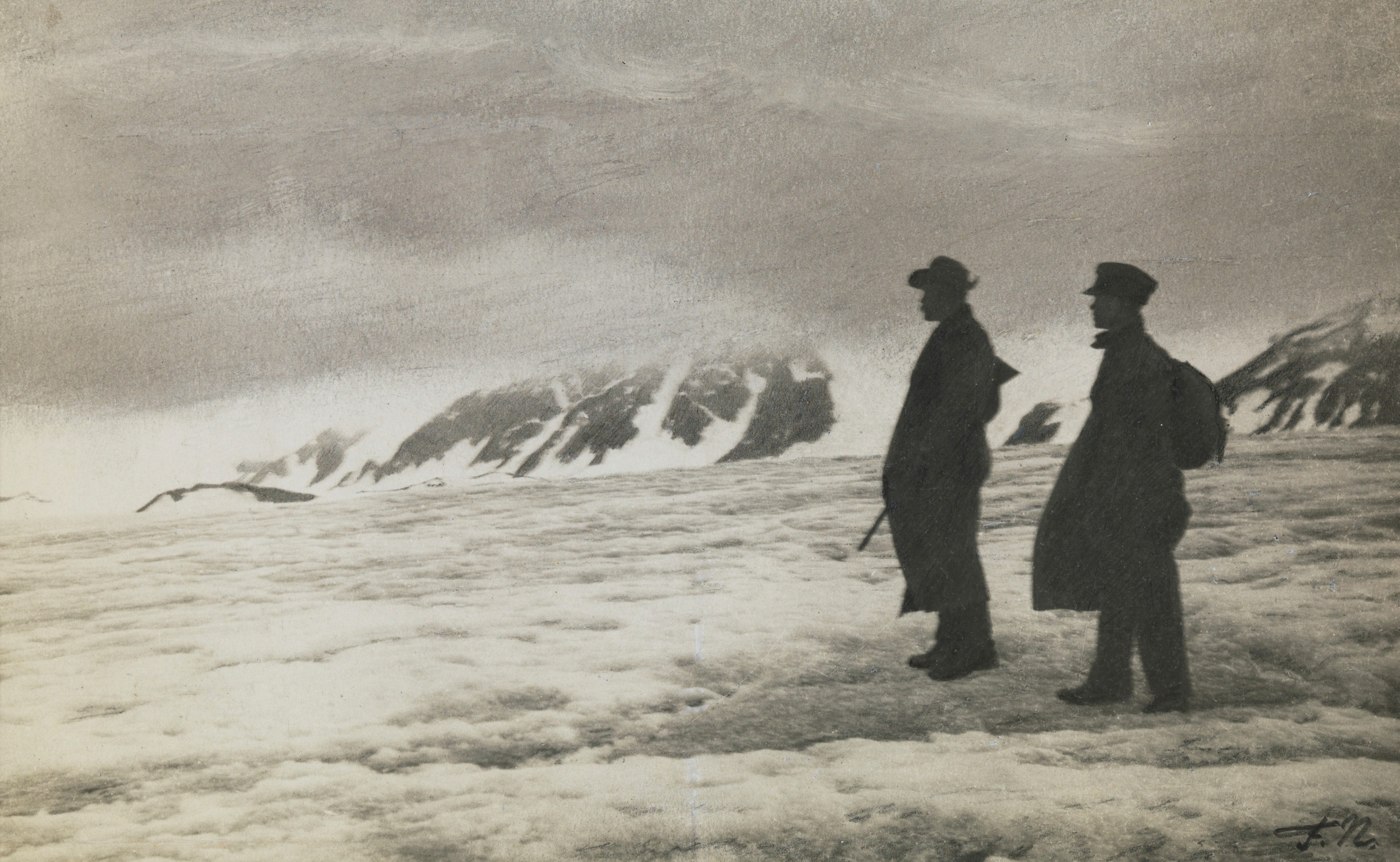 Fridtjof Nansen together with his son Kåre Nansen on a glacier (Buchanan Glacier) (Signed photo with pencil signature).